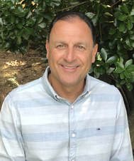 Frank Nappi